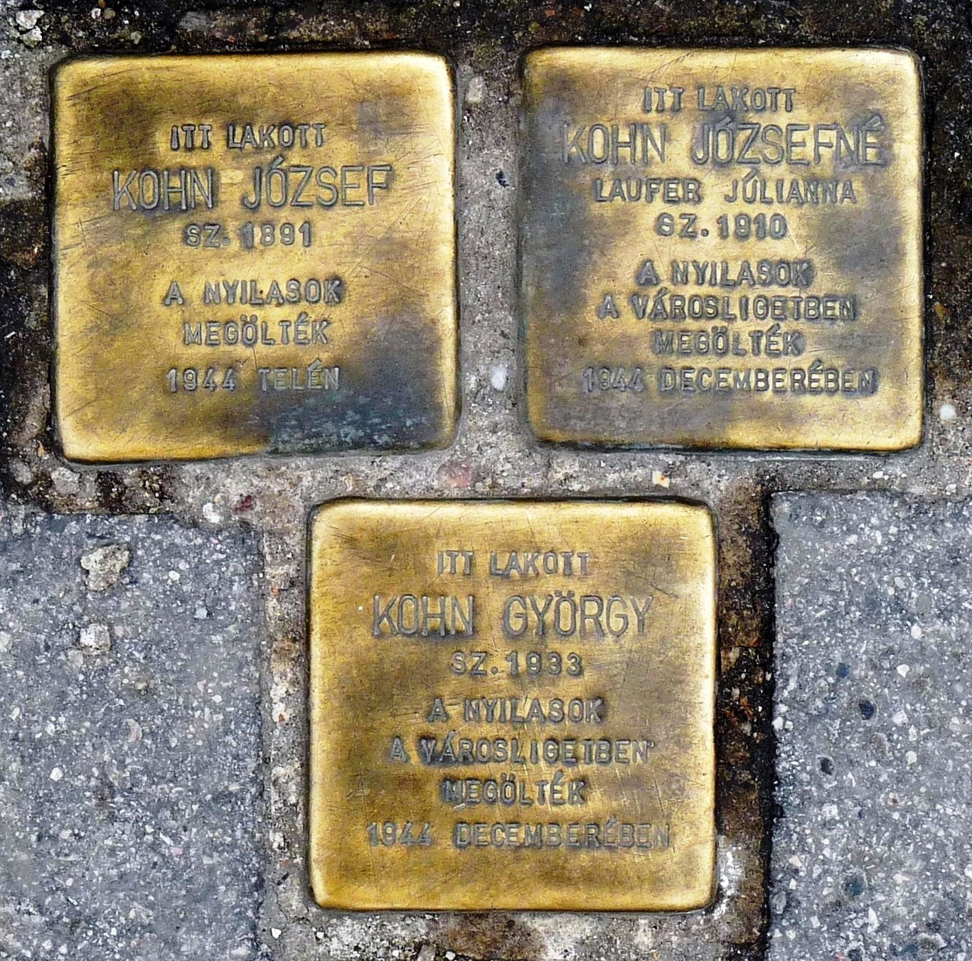 Stolpersteins in memory of Mr. József Kohn (1891-1944), his wife, Mrs. Julianna Laufer (1910-1944) and their son Mr. György Kohn (1933-1944, at the entrance of their former domicile. (Budapest, District XIV, Egressy Avenue Nr 95).